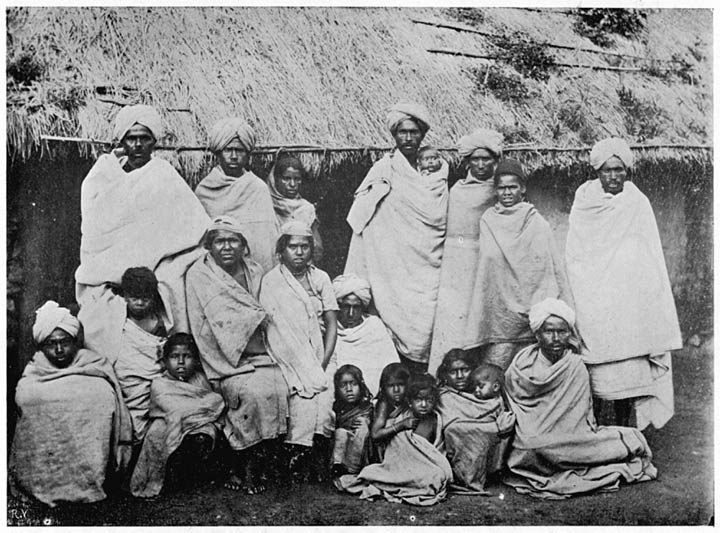 Badaga caste of Nilgiri Hills, from Castes and Tribes of Southern India (1909)